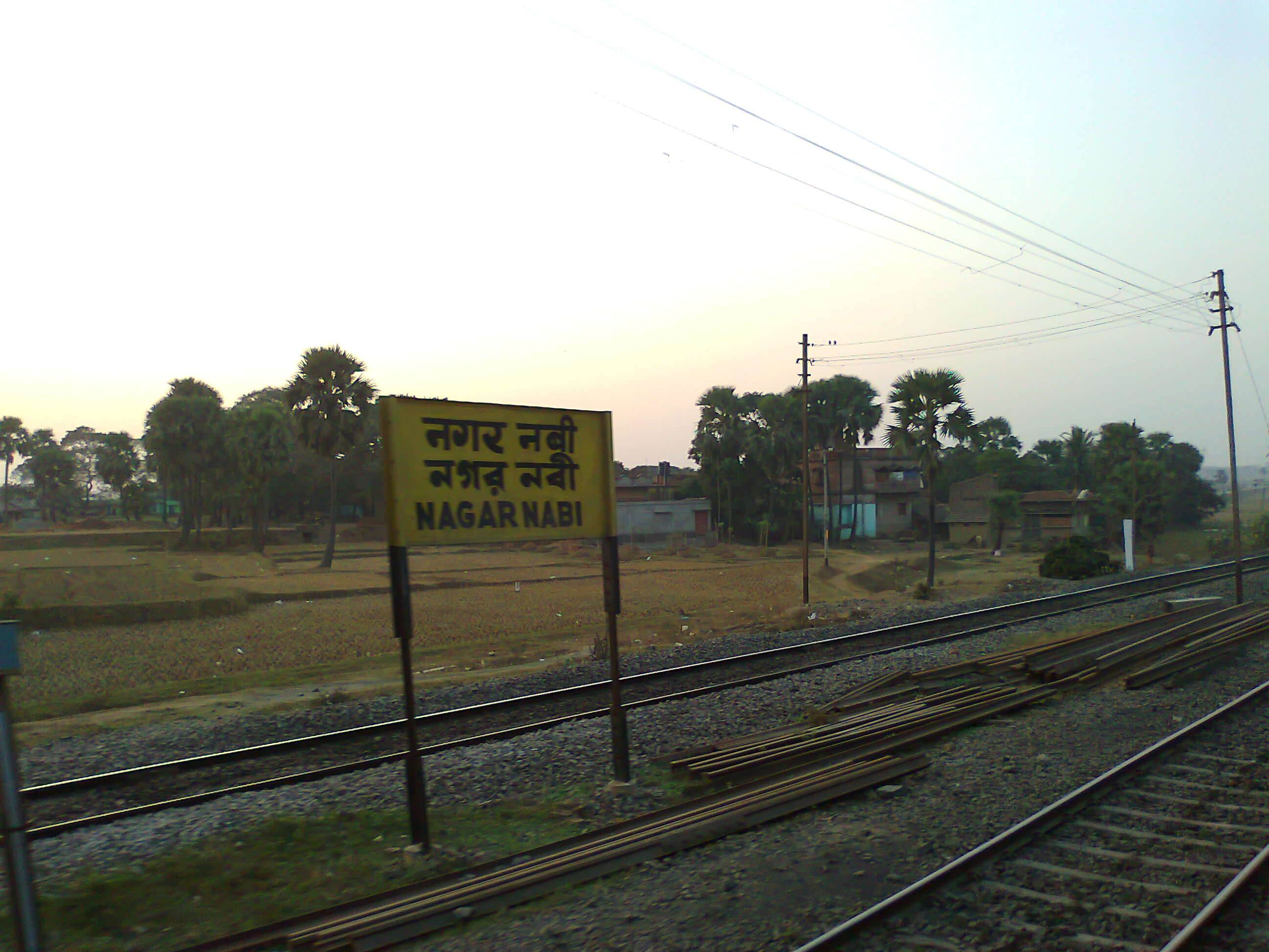 Taken via mobile.